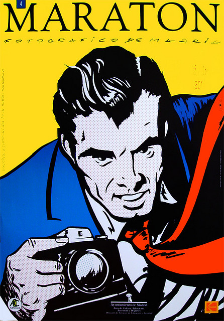 Poster IV Madrid PhotoMarathon